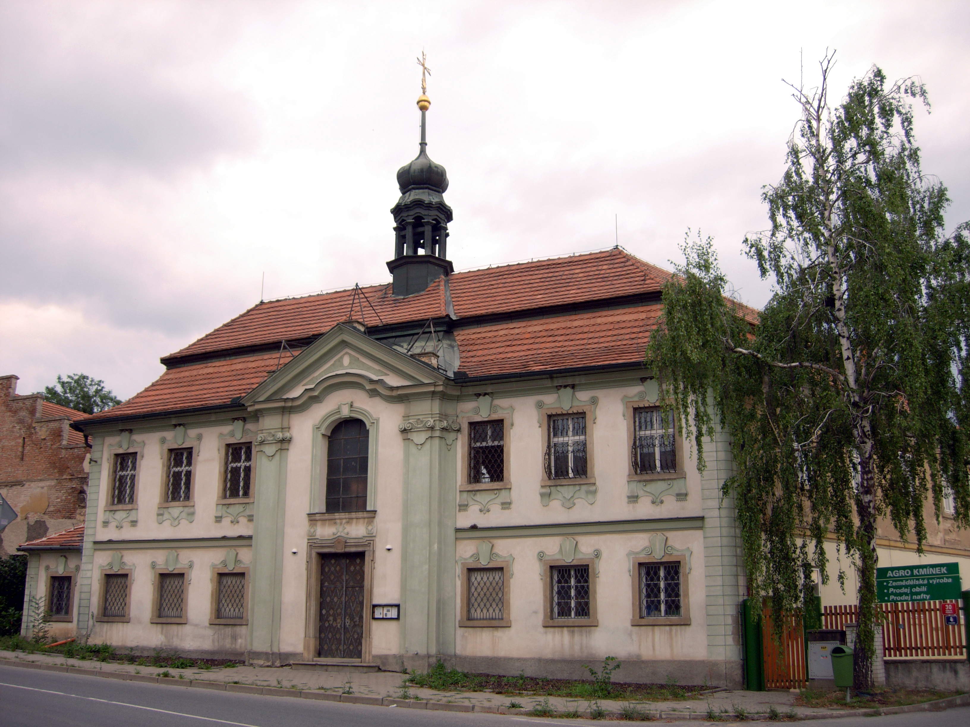 Castle in Ďáblice, Prague.